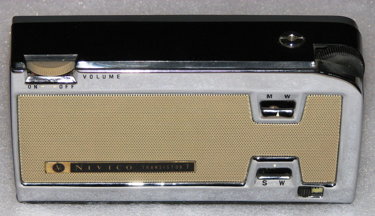 Great design on this Japanese-made radio.